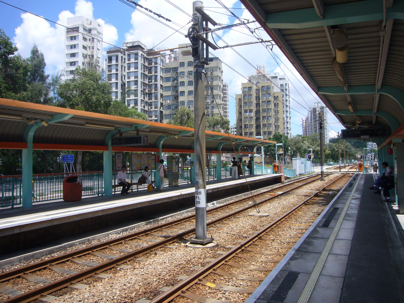 LRT San Hui Stop, MTR HK